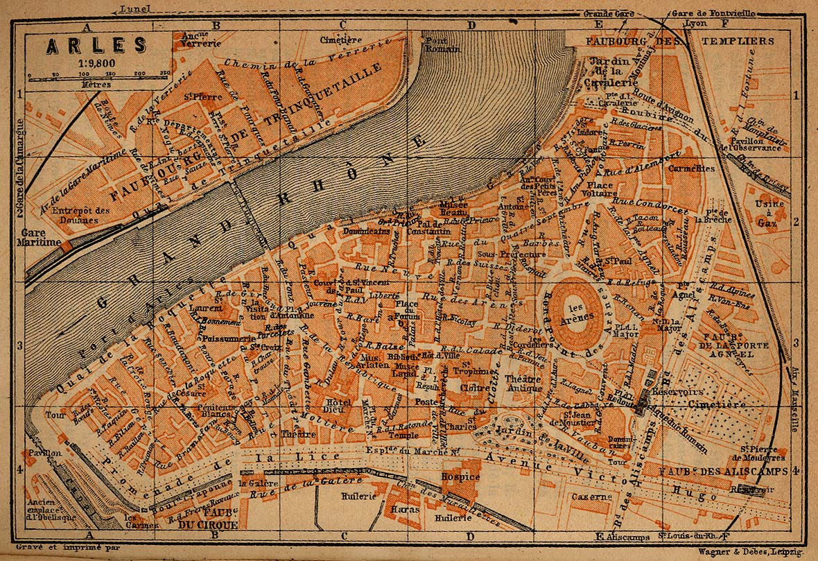 Map of Arles, France.